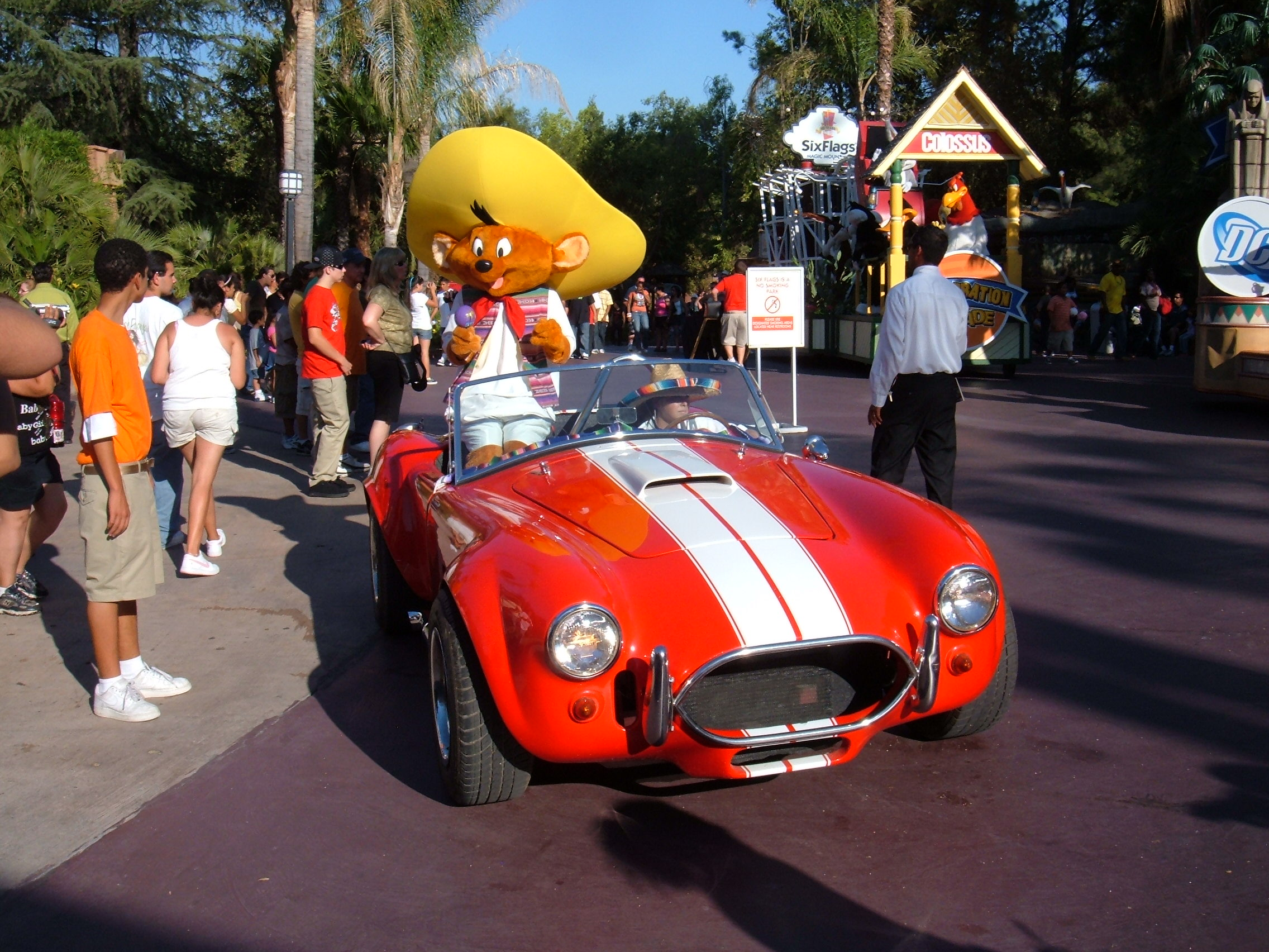 Speedy Gonzales at the Celebration Parade at Six Flags Magic Mountain in Ventura, California.